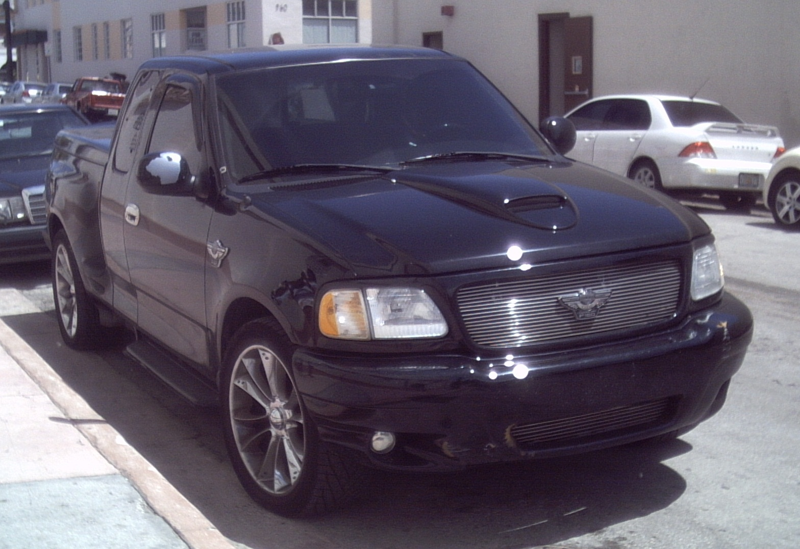 Ford F-150 Funkmaster Flex photographed in Miami Beach, Florida, USA.